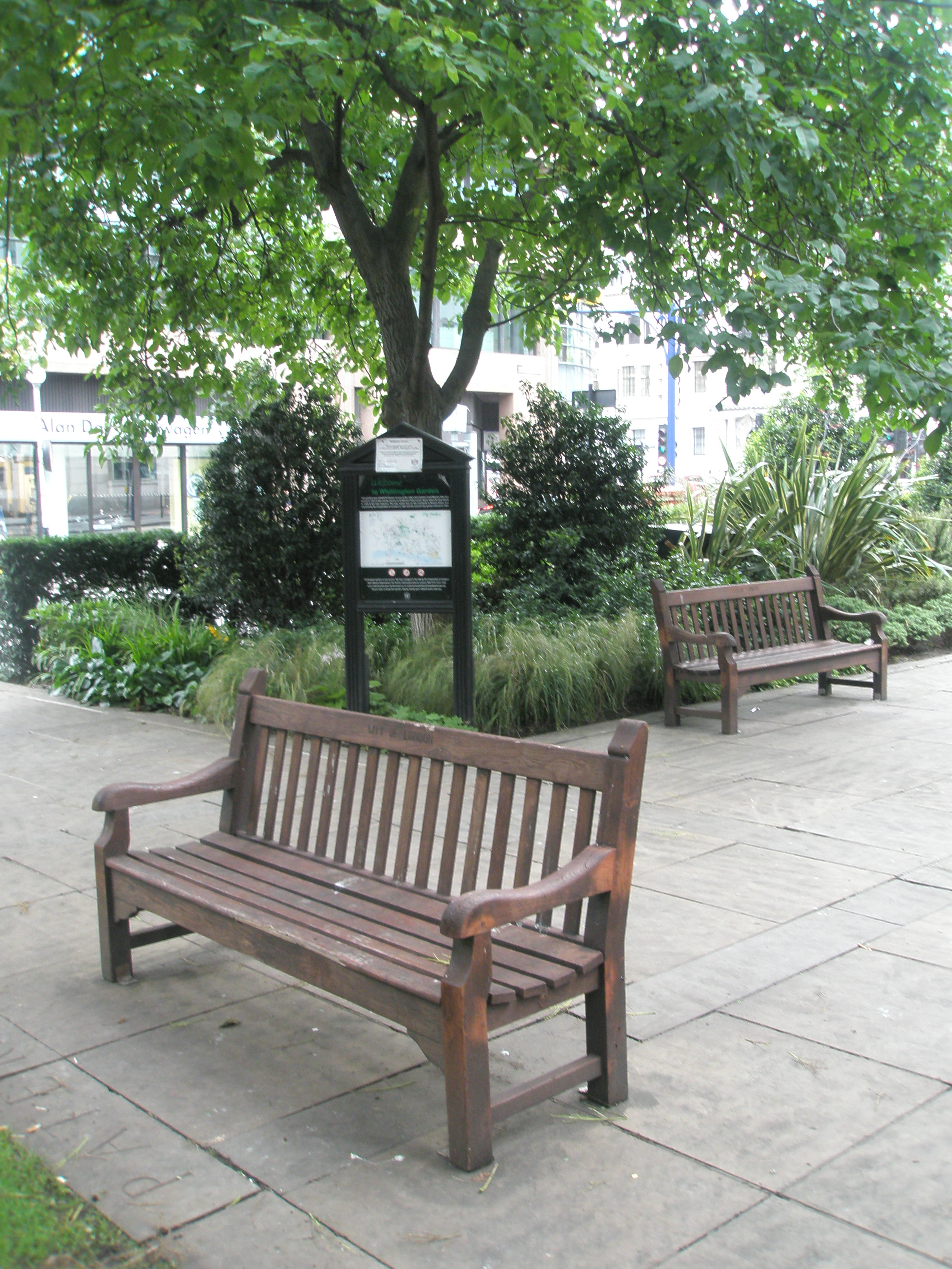 Whittingdon Gardens, London. Site of the former St Martin Vintry Destroyed by fire in 1666 and not rebuilt.